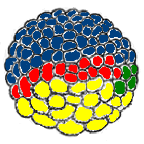 Modification of except from original work with "potential" germ layers identified by position. Blue = ectoderm yellow = endoderm red = mesoderm green = notochord if the diagram were representative of a Chordate Blastula